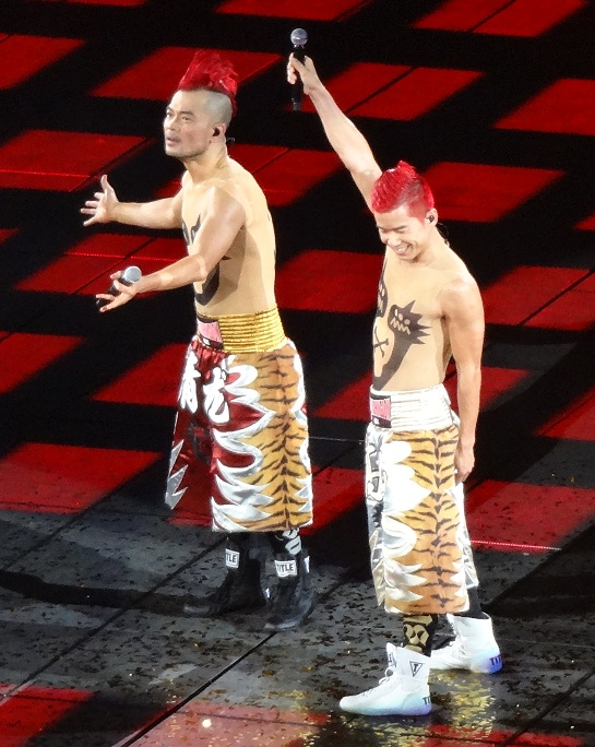 Grasshopper VS Softhard Concert 2012